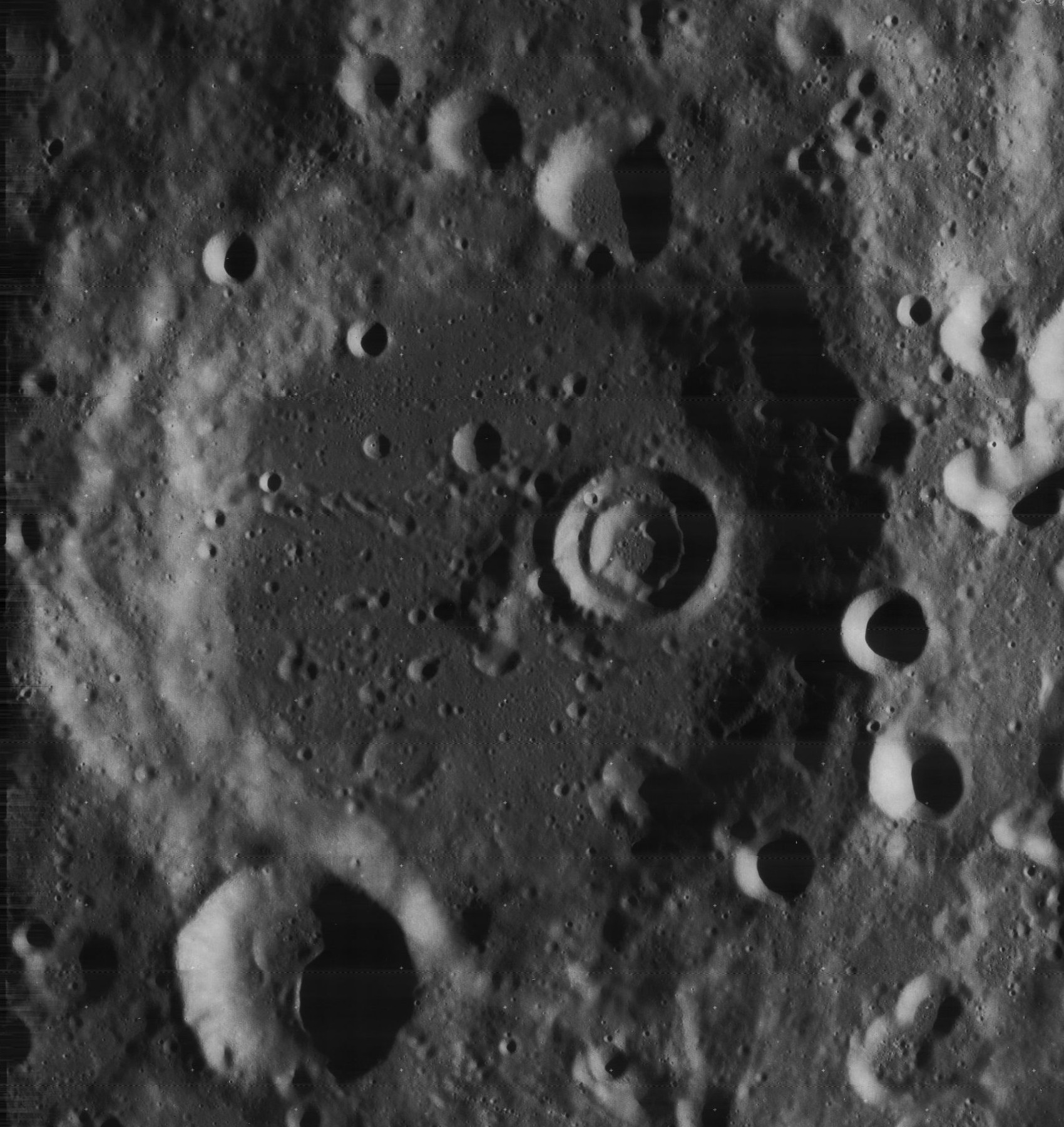 Bell crater, on the moon.